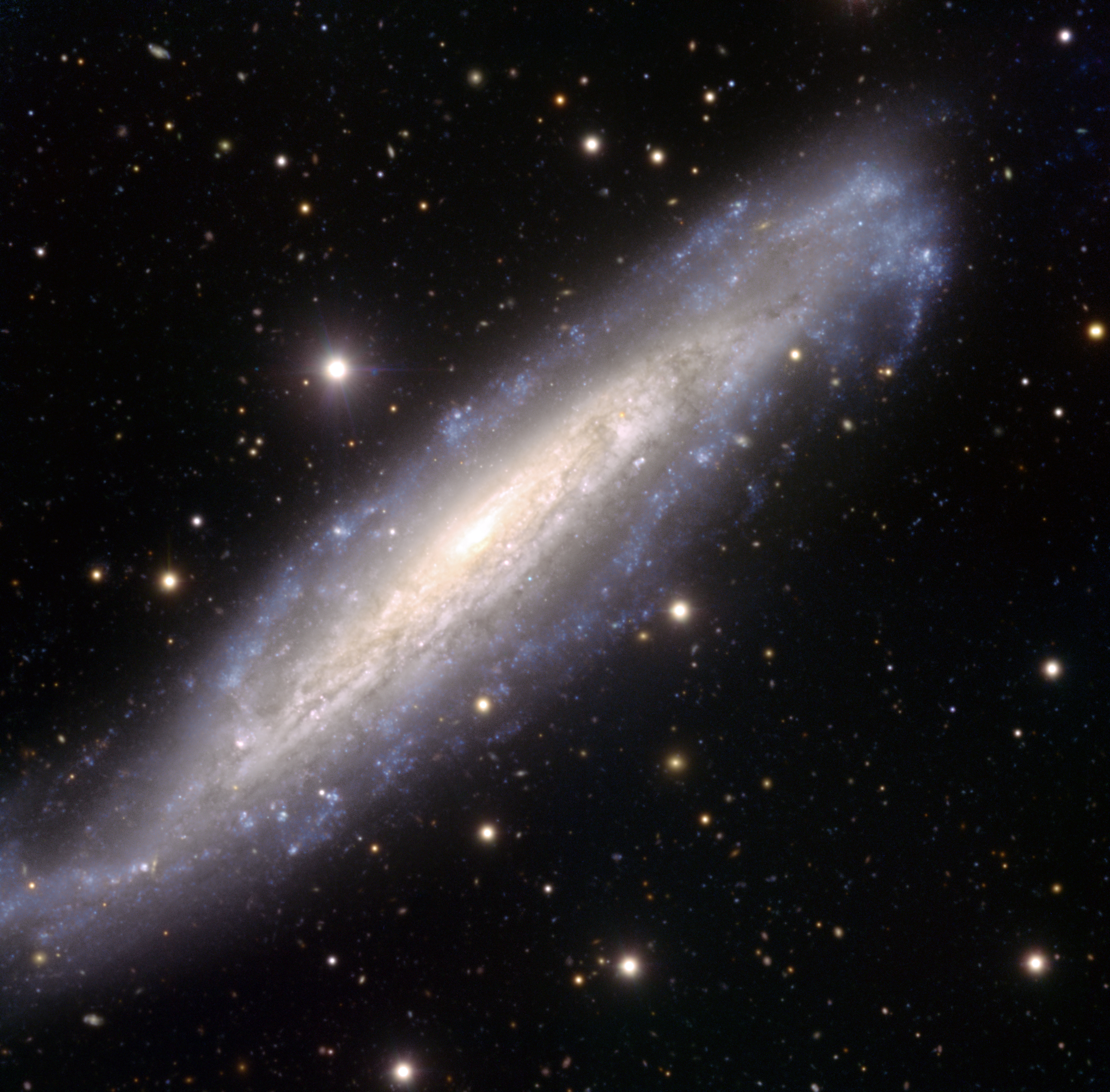 Portrayed in this image is the spiral galaxy NGC 1448, with a prominent disc of young and very bright stars surrounding its small, shining core. Located about 60 million light-years away from the Sun, this galaxy has recently been a prolific factory of supernovae, the dramatic explosions that mark the death of stars: after a first one observed in this galaxy in 1983, two more have been discovered during the past decade. Visible as a red dot inside the disc, in the upper right part of the image, is the supernova observed in 2003 (SN 2003hn), whereas another one, detected in 2001 (SN 2001el), can be noticed as a tiny blue dot in the central part of the image, just below the galaxy’s core. If captured at the peak of the explosion, a supernova might be as bright as the whole galaxy that hosts it. This image was obtained using the FORS instrument mounted on one of the 8.2-metre telescopes of ESO’s Very Large Telescope on top of Cerro Paranal, Chile. It combines exposures taken through three filters (B, V, R) on several occasions, between July 2002 and the end of November 2003. The field of view is 7 arcminutes.